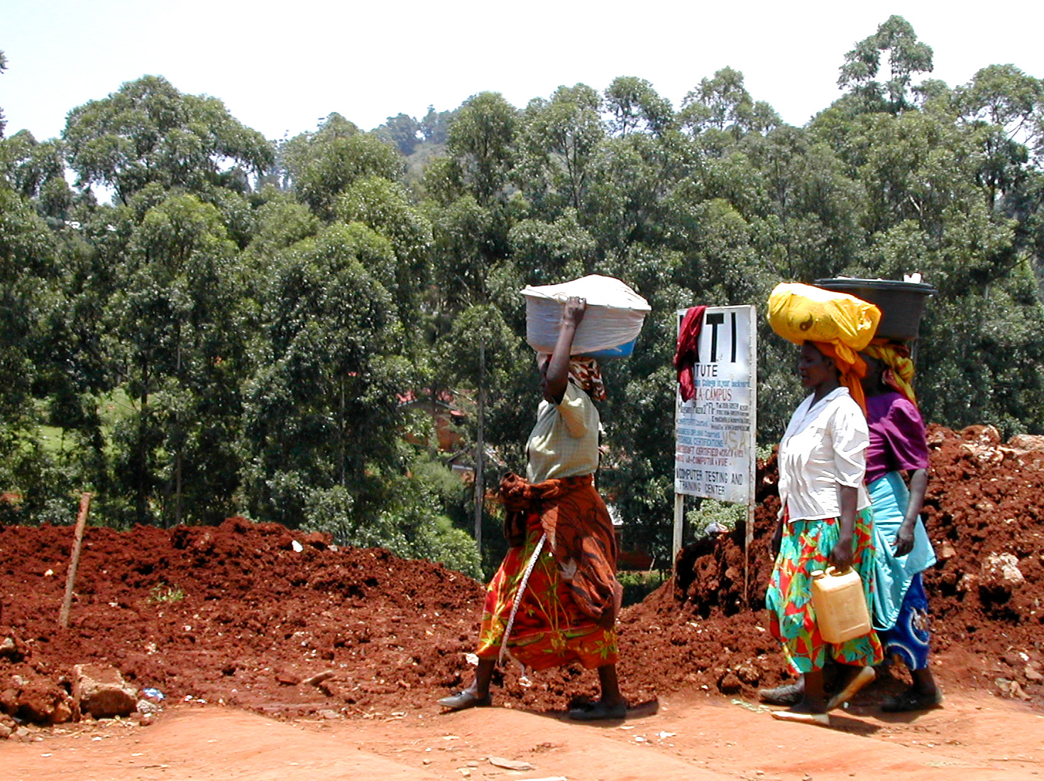 Three women carrying goods on their heads walking home from a market in Kenya.